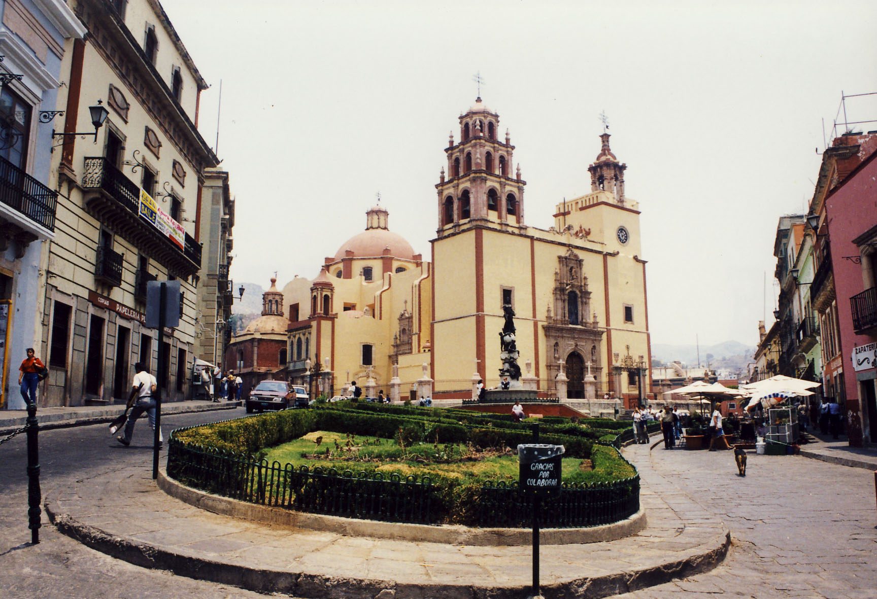 Basilica of Guanajuato in 1998.